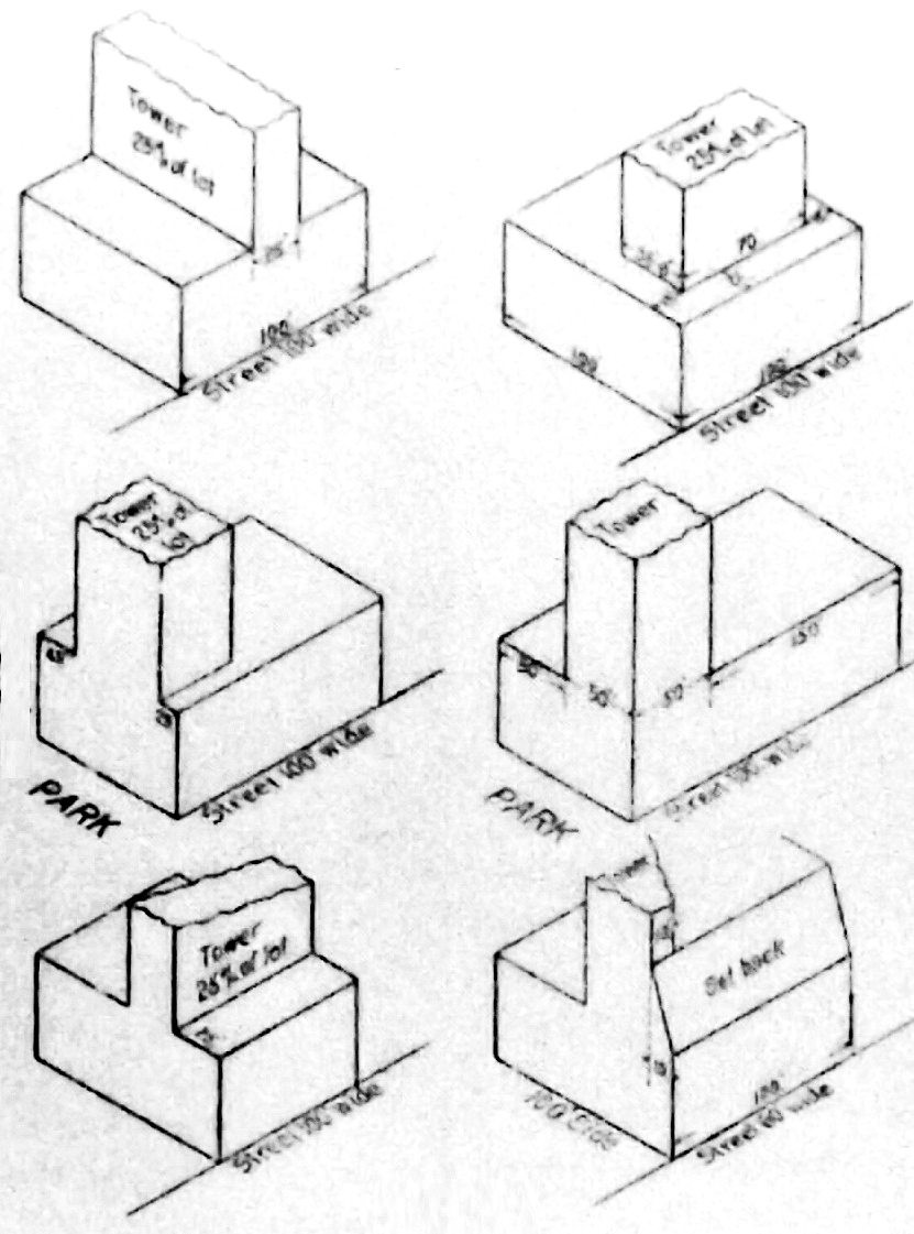 Setback tower options, 1916, described in the 1916 zoning report